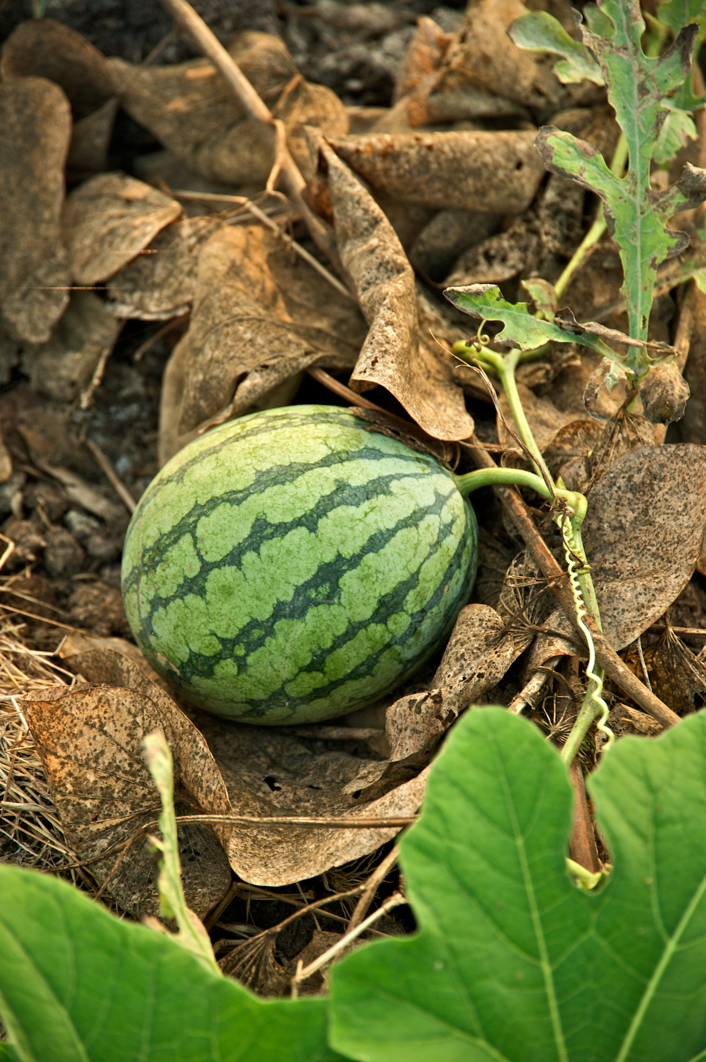 Watermelon in a small-scale organic farm in Tainan City, Taiwan